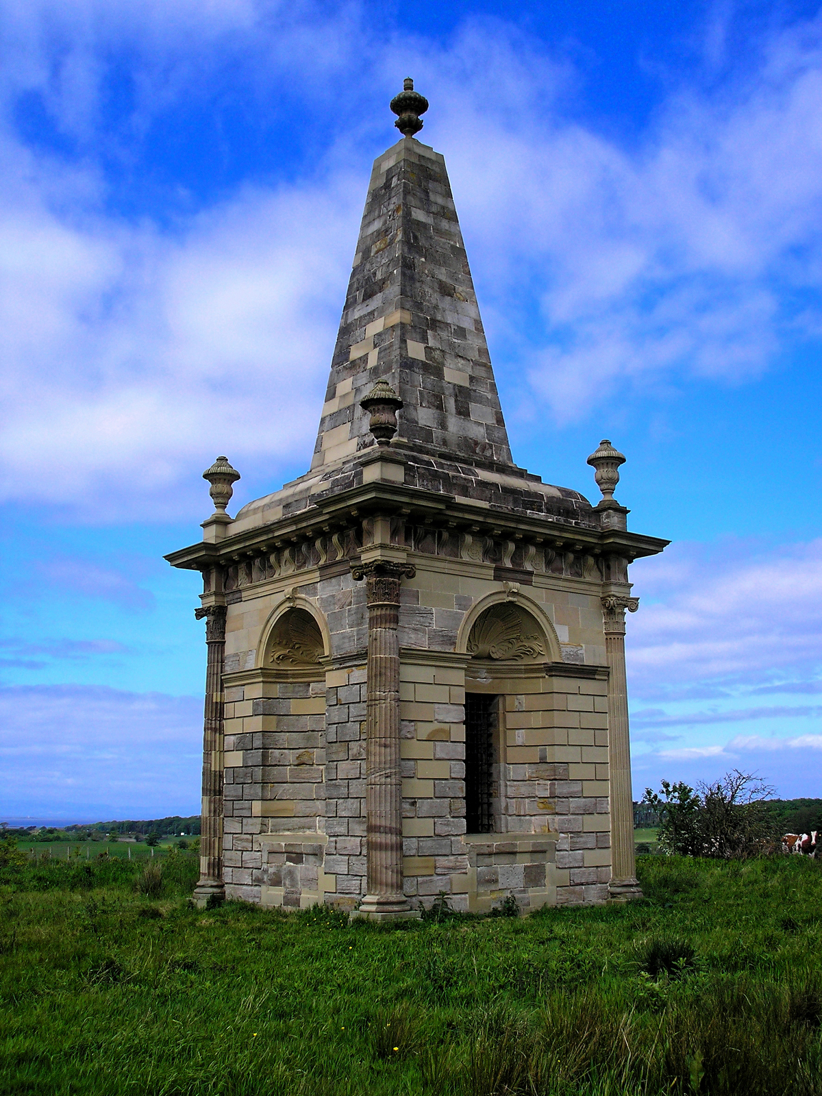 Macrae's Monument. A-Listed Building renovated in 2001. From 1725 to 1731 James Macrae was Governor of Madras where he made his fortune. He purchased Orangefield Estate, and the mansion became the airport terminal in WW2, demolished after the present terminal opened.